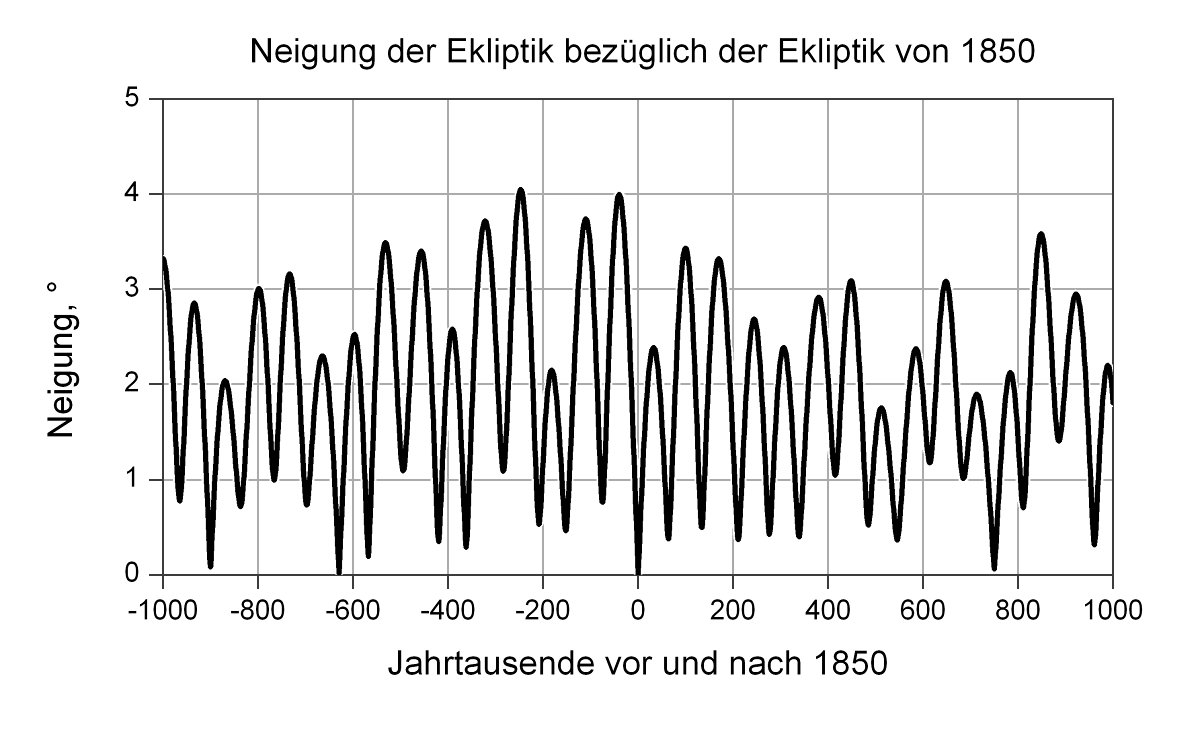 The diagram shows the long-term variation of the inclination of Earth's orbit on the ecliptic of AD 1850, plotted over two million years. Graph made by myself. Data computed using the method described by J. Meeus (More Mathematical Astronomy Morsels, ISBN 0-943396-74-3, ch. 33).